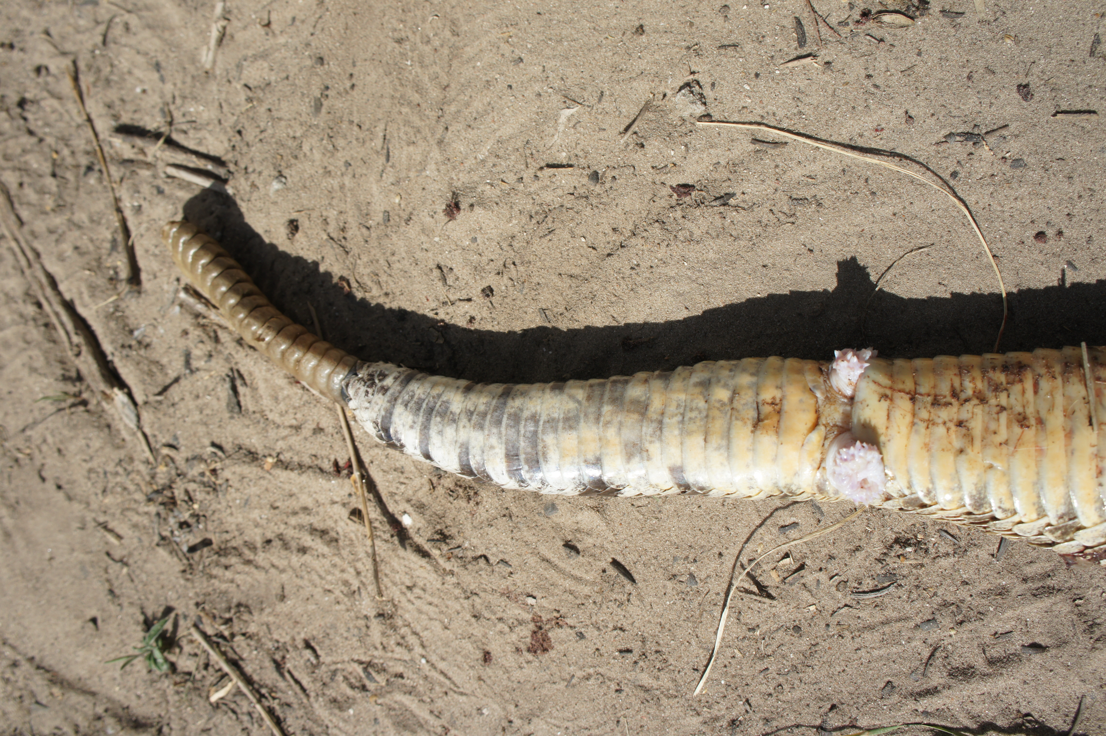 The hemipenes of a Western Diamondback Rattlesnake in Beeville, TX in July 2011